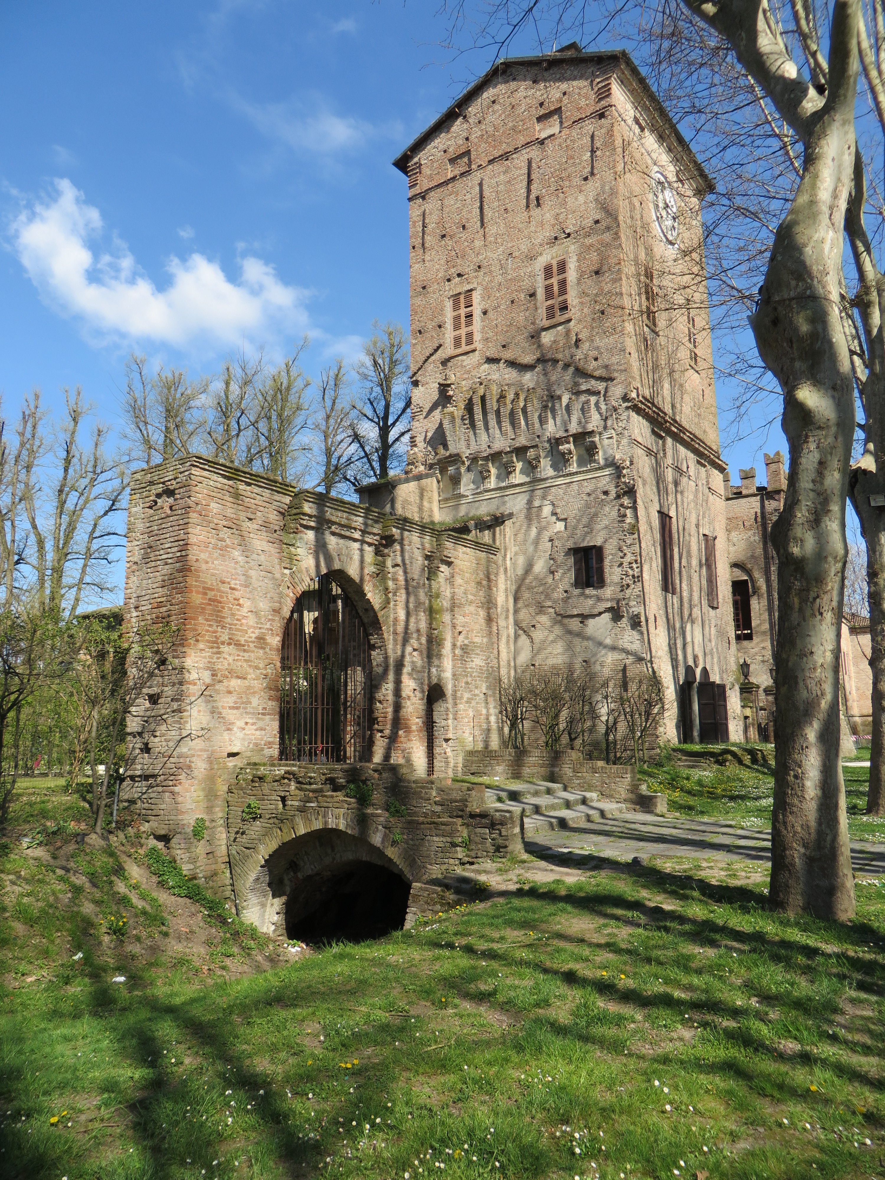 Castle